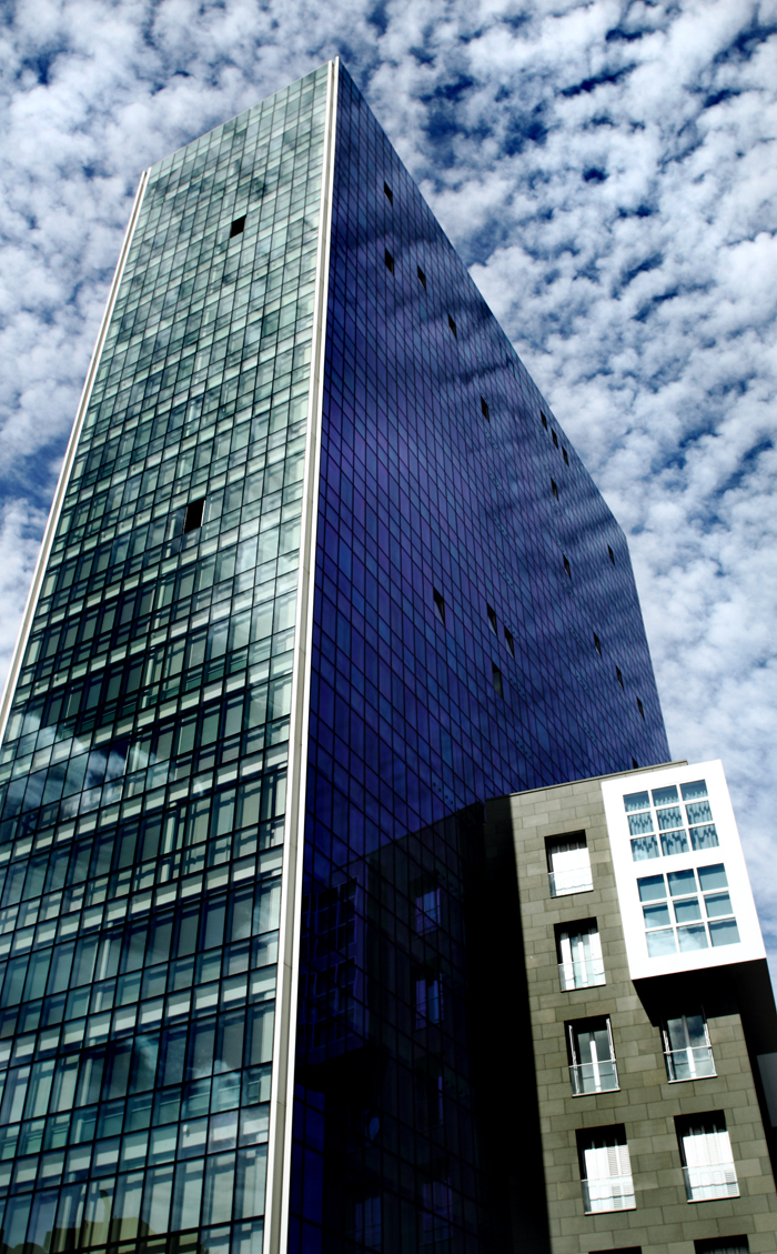 Isozaki Atea (Bilbao).